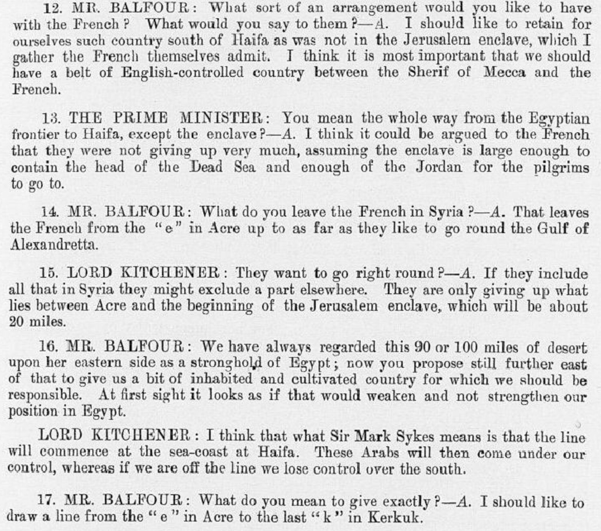 Sykes-Picot negotiations, Evidence of Lieutenant-Colonel Sir Mark Sykes, Bart., M.P. Meeting held at 10, Downing Street, on Thursday, December 16, 1915, at 11.30am.